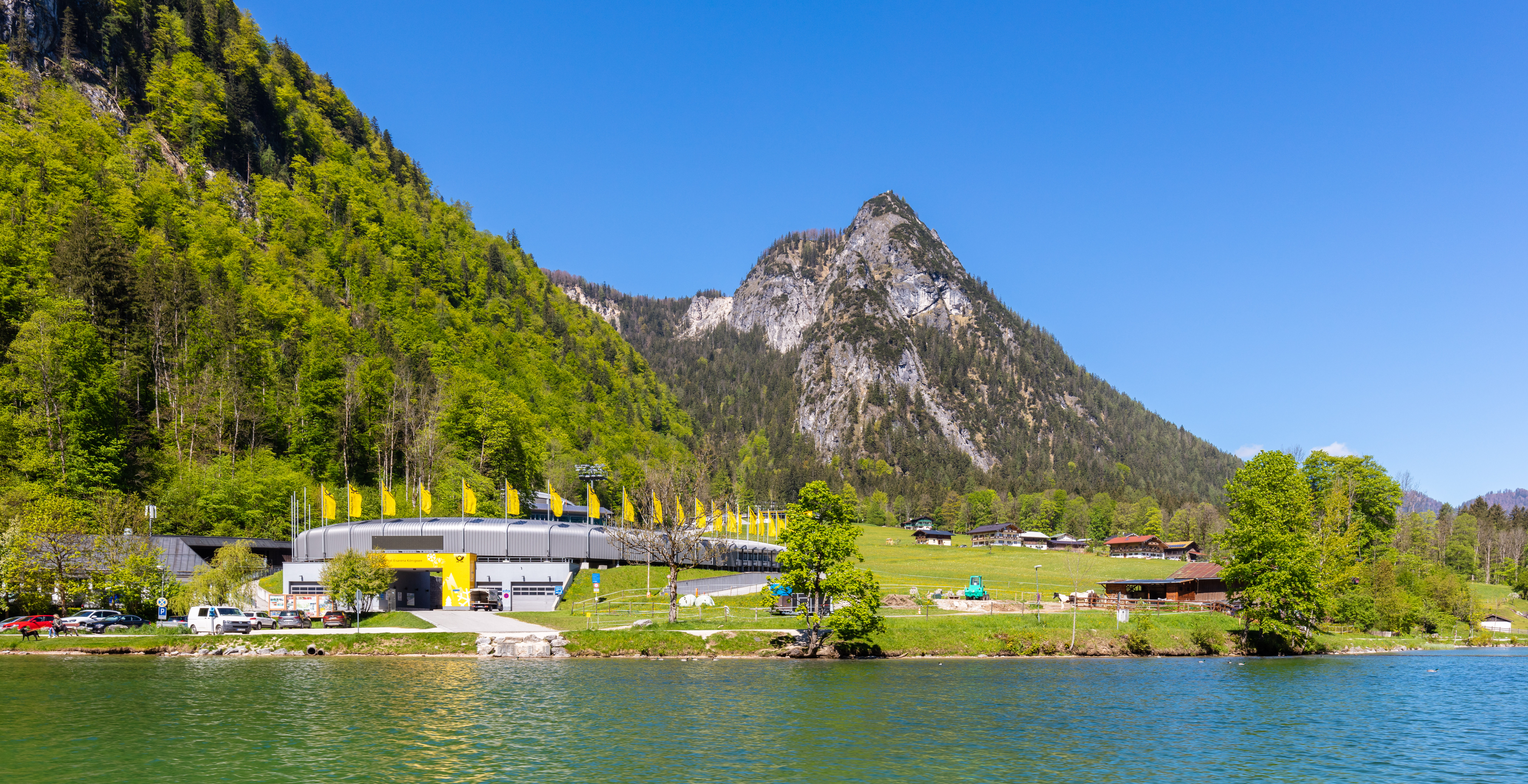 Deutsche Post Eisarena Königssee, Schönau am Königssee, Germany